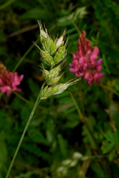 Flower spike of Interrrupted Brome Bromus interruptus, with sainfoin (Onobrychis viciifolia) in the background Summary Flower spike of Interrrupted Brome Bromus interruptus, with sainfoin (Onobrychis viciifolia) in the background